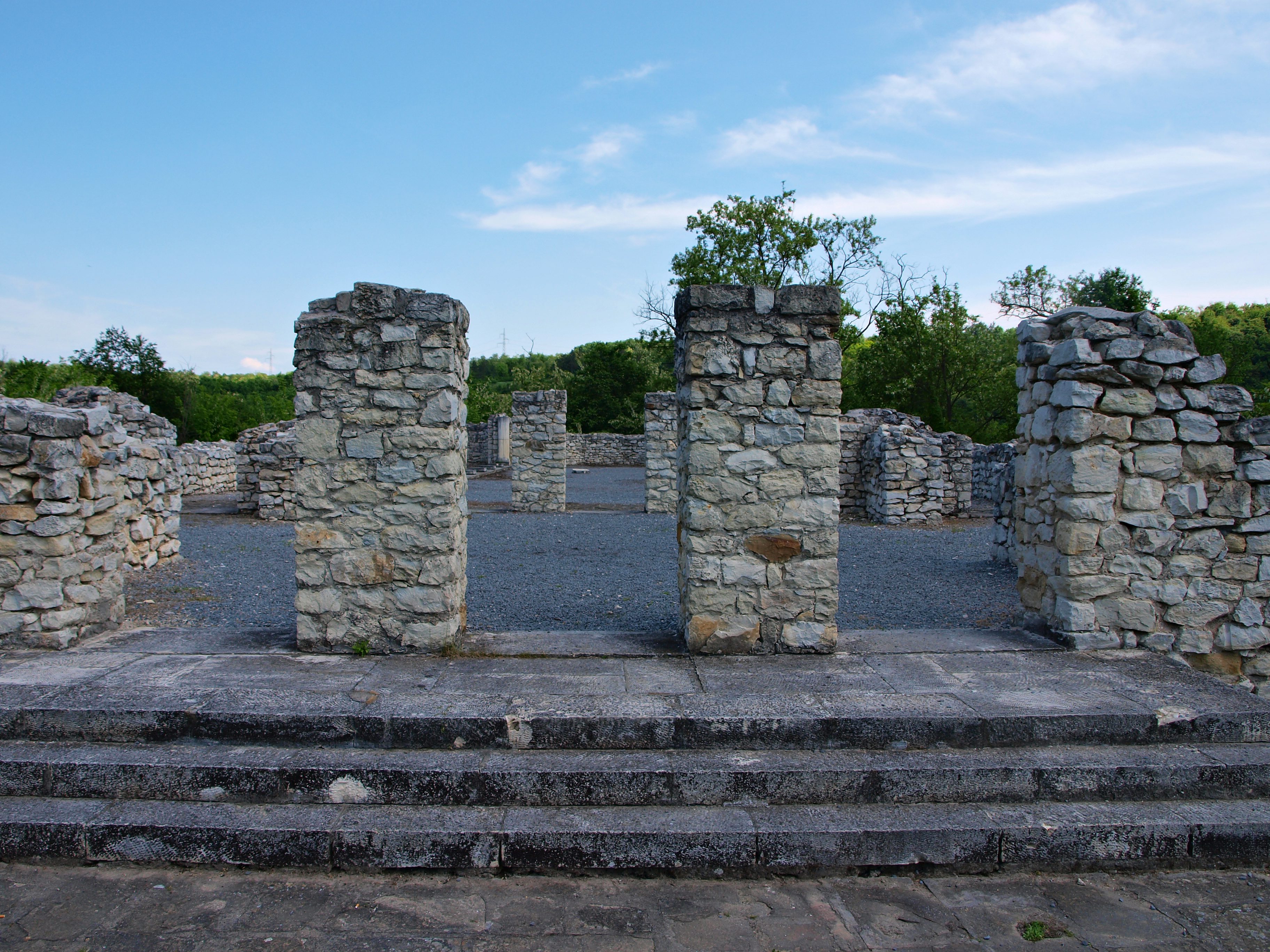 Ruins of the Ancient Roman fortress Storgosia near Pleven, Bulgaria